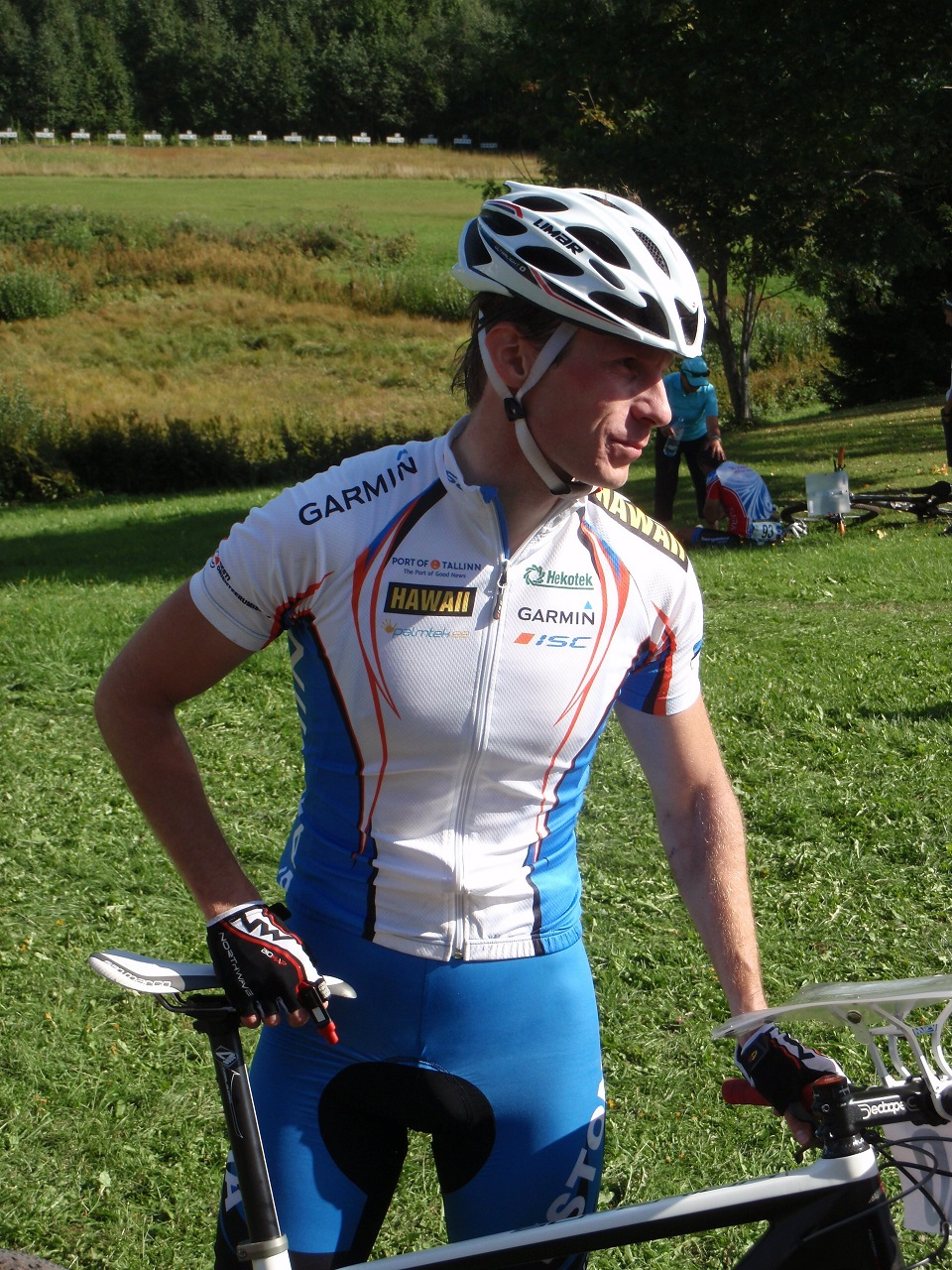 Tõnis Erm at finish of WMTBOC2013 middle distance